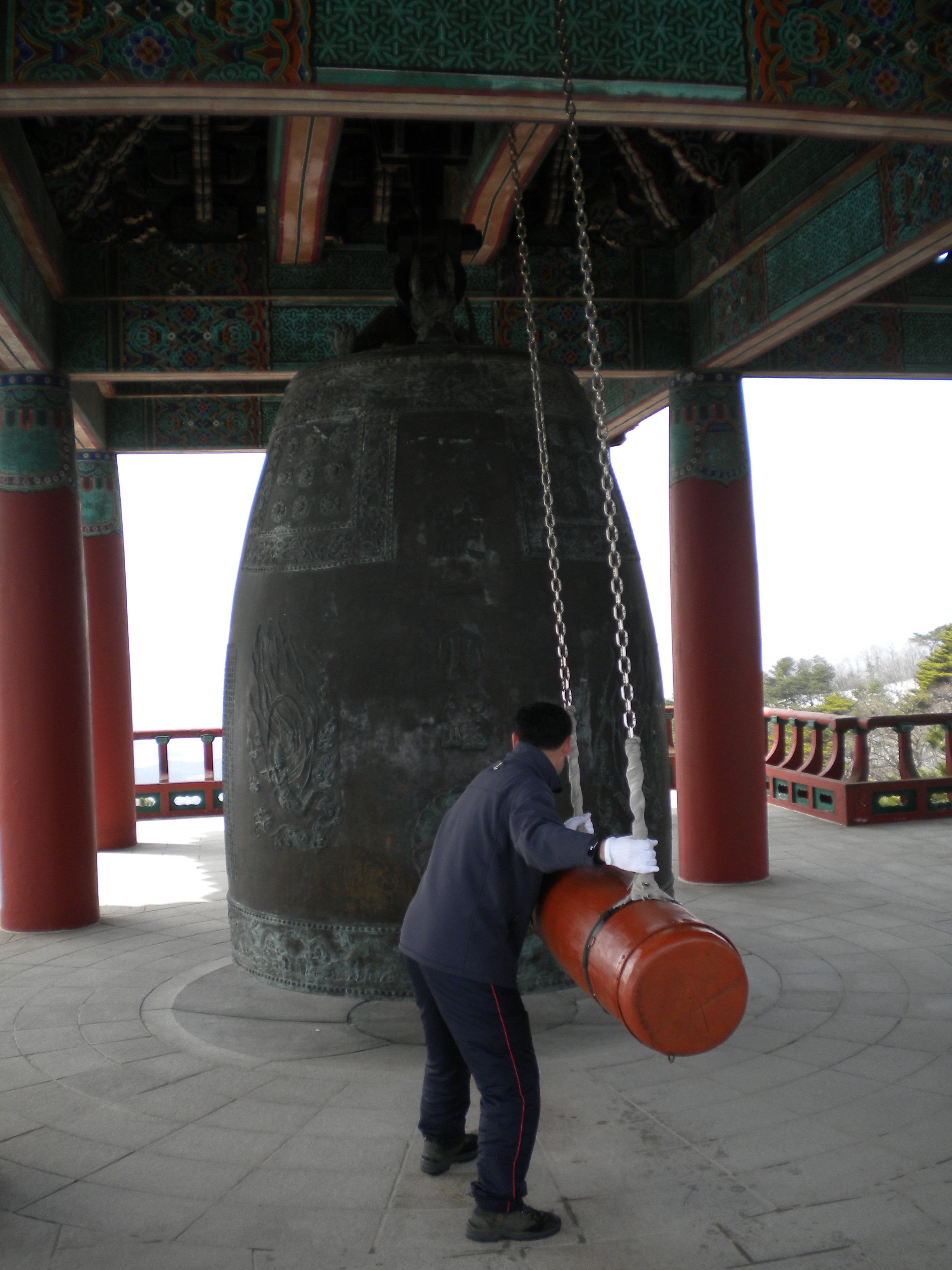 Korean bell on Mount Tohamsan on path to Seokguram Grotto in Gyeongju.